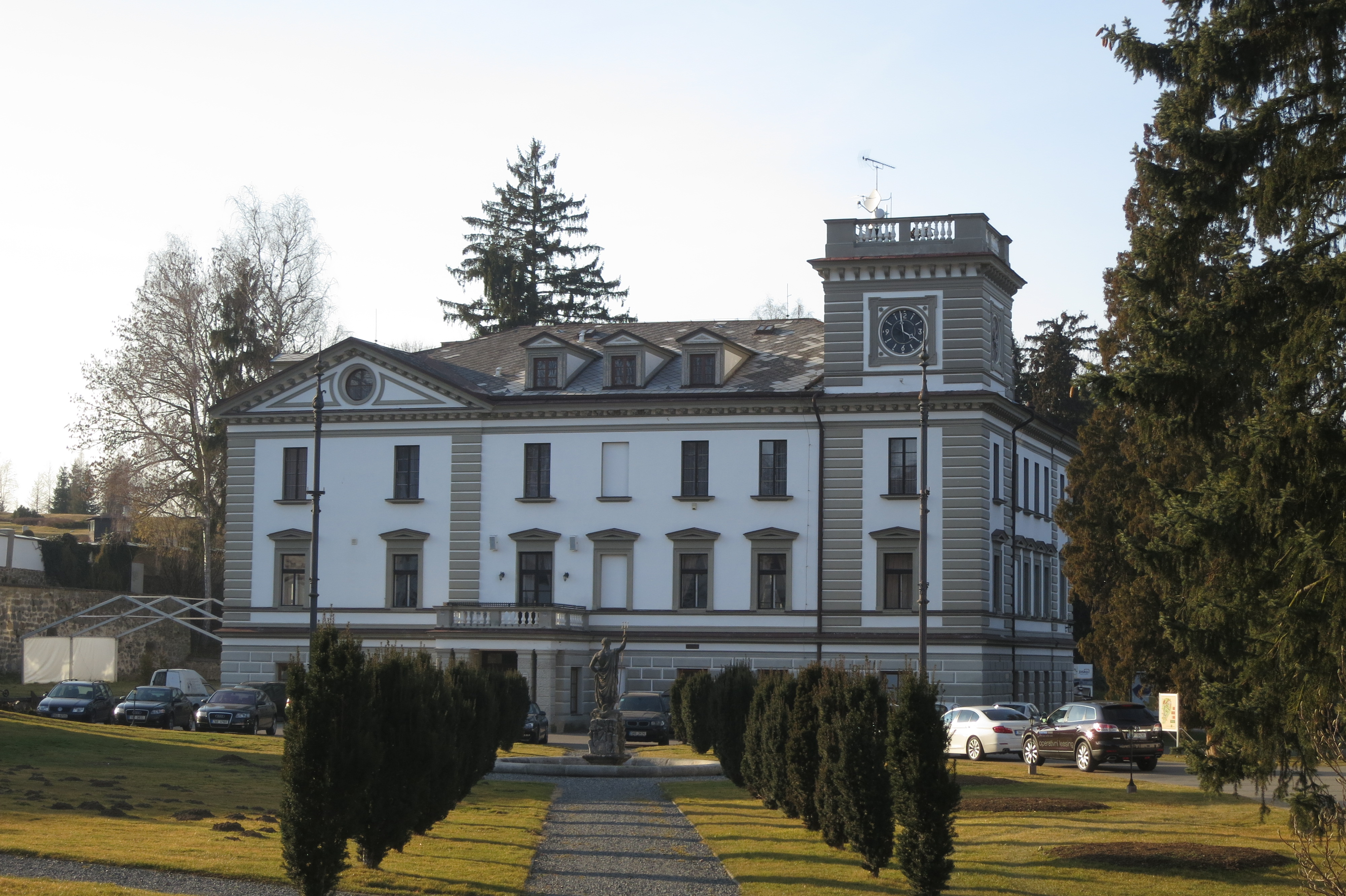 Detail view of Tvoršovice castle, Tvoršovice, Bystřice, Benešov District.